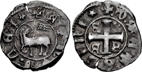 CRUSADERS, Lordship of Lesbos. Jacopo Gattilusio. 1404-1428. AR Grosseto (13.5mm, 1.17 g, 6h). Mytilene mint. + AGnVS : DЄI (star), agnus Dei standing left, head reverted, banner over shoulder / + · ∂ · mЄTЄLInI (star), cross pattée with Bs in quarters (arms of the Paoleologi). Metcalf, Crusades –; Lunardi G7f. VF, toned.